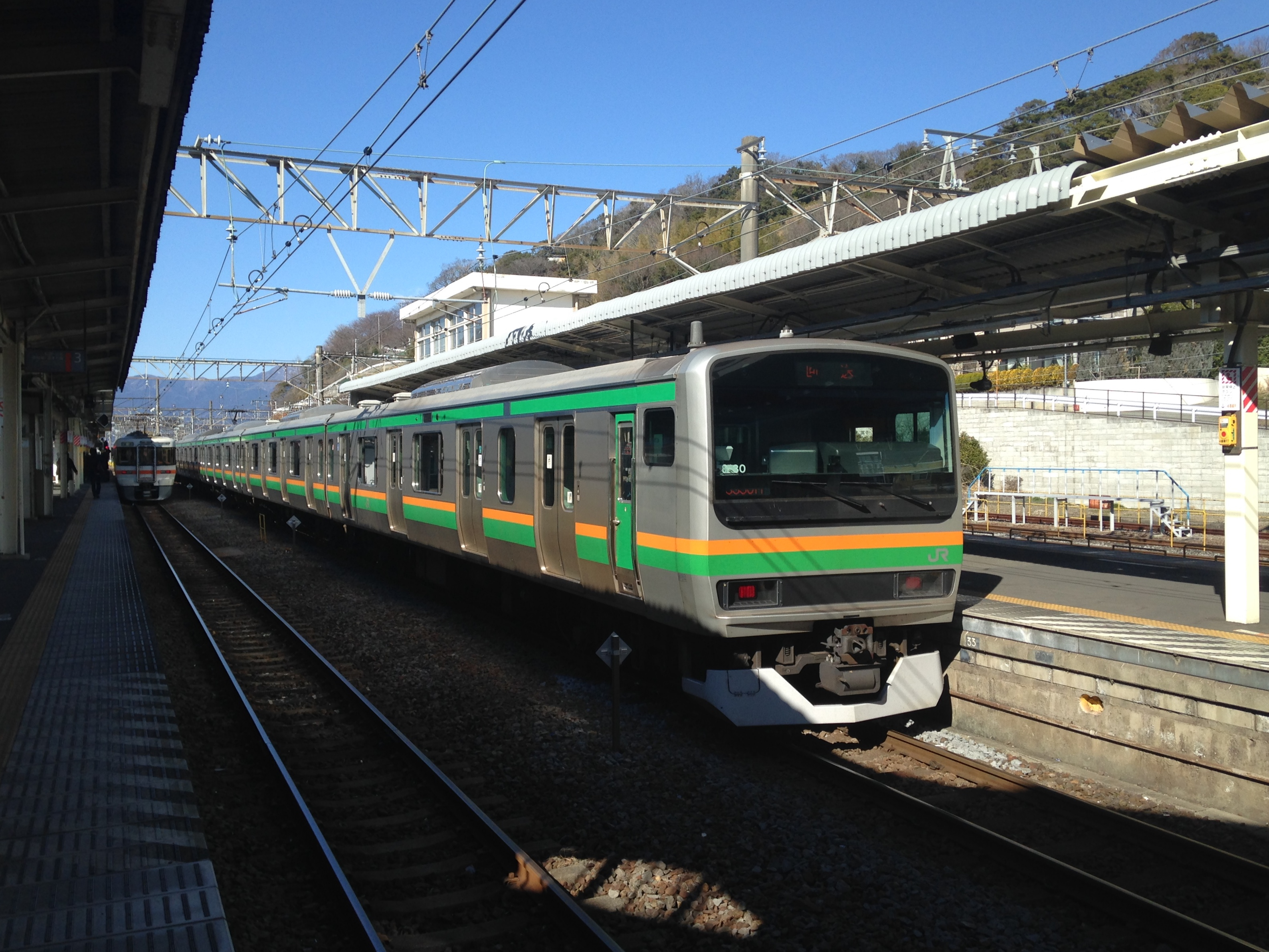 A JR East E231-1000 series EMU at Kozu Station on the Tokaido Line